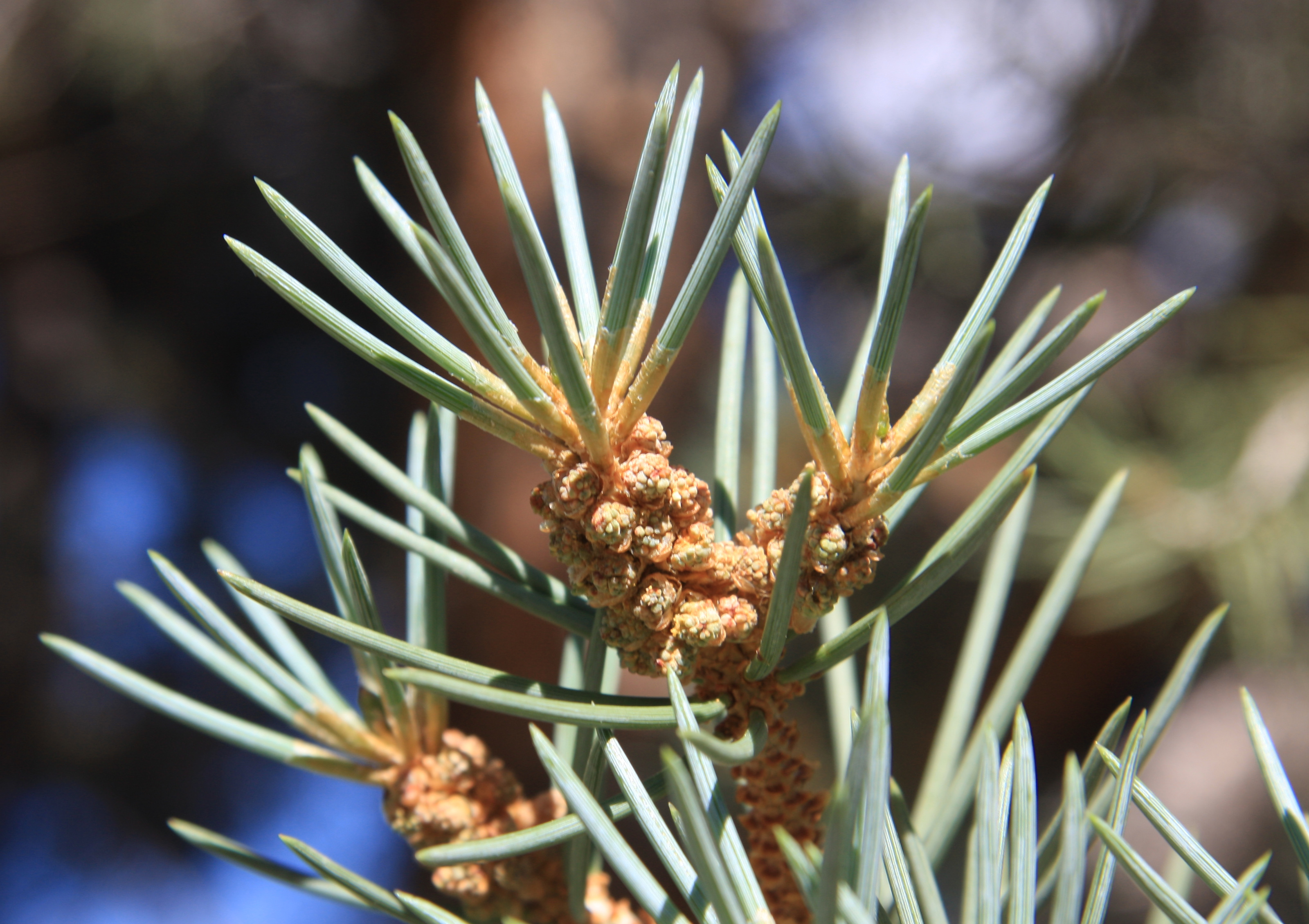 Pinus monophylla "single needles" in closeup (pinyon pine), showing that species' unusual characteristic of one round, grooved, sharp-pointed, gray-green needle in each papery sheath. Pollen cones are clustered around the twig below. Pinus monophylla subspecies californianum — photographed at 2,120 m (6,960 ft) in Swall Meadows, Mono County, California.